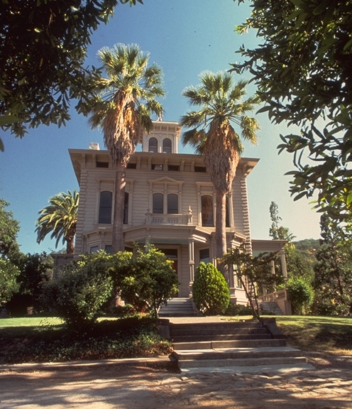 John Muir National Historic Site in Martinez, California. This is the Victorian residence of scientist, philosopher and conservationist John Muir from 1890 till his death 1914.